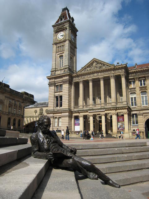 Chamberlain Square — with the reclining sculpture of Thomas Attwood, the Chartist Leader and first MP for Birmingham. The sculpture was a collaboration between sculptors Sioban Coppinger and Fiona Peever. It was commissioned by Priscilla Michell in conjunction with the City of Birmingham to commemorate her great great grandfather. The backdrop is the Birmingham Museum and Art Gallery with the clock tower of "big Brum".